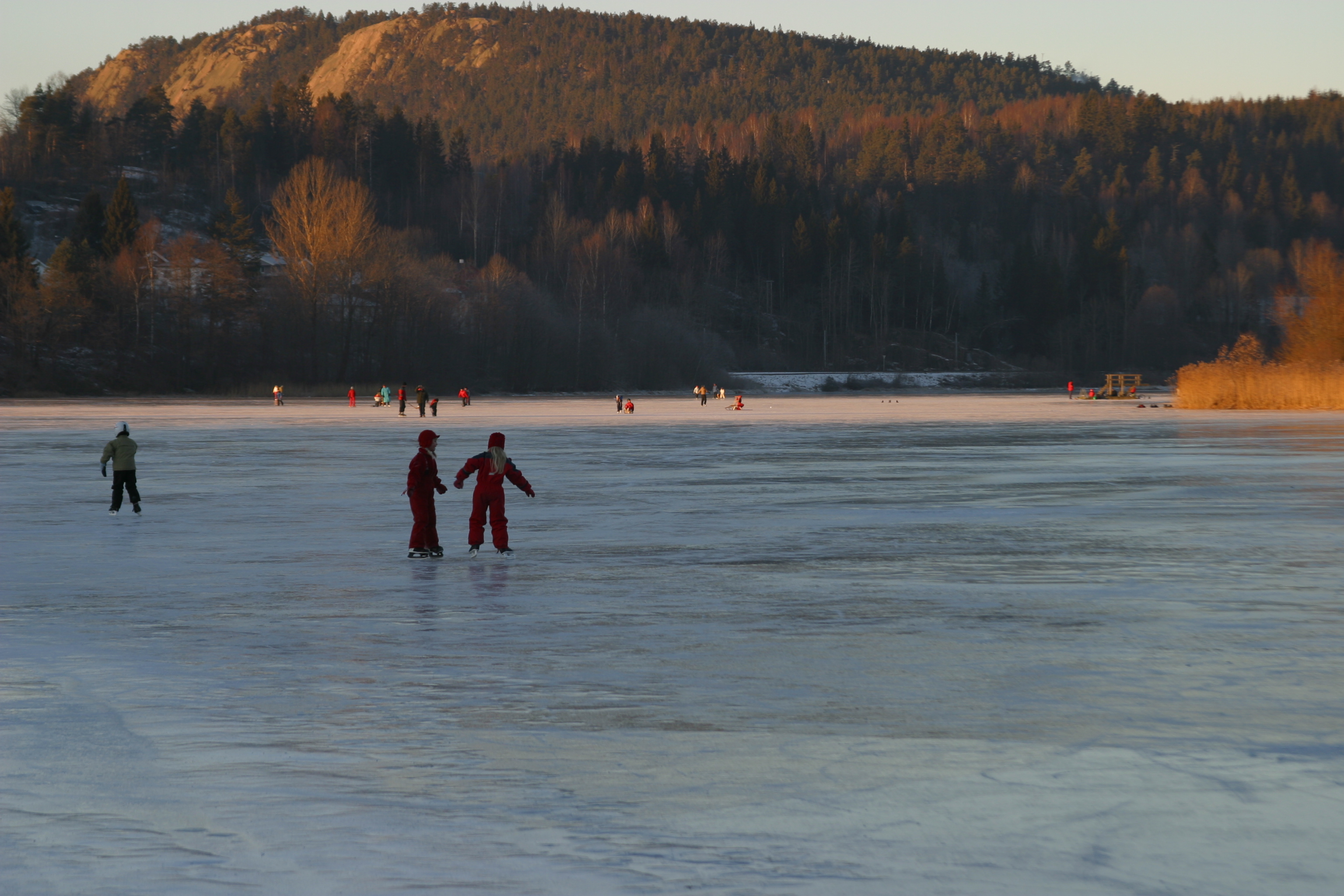 Picture of Gjellumvannet (Akershus - Norway)